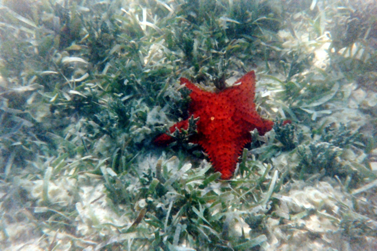 A starfish in turtle grass. Puerto Rico.